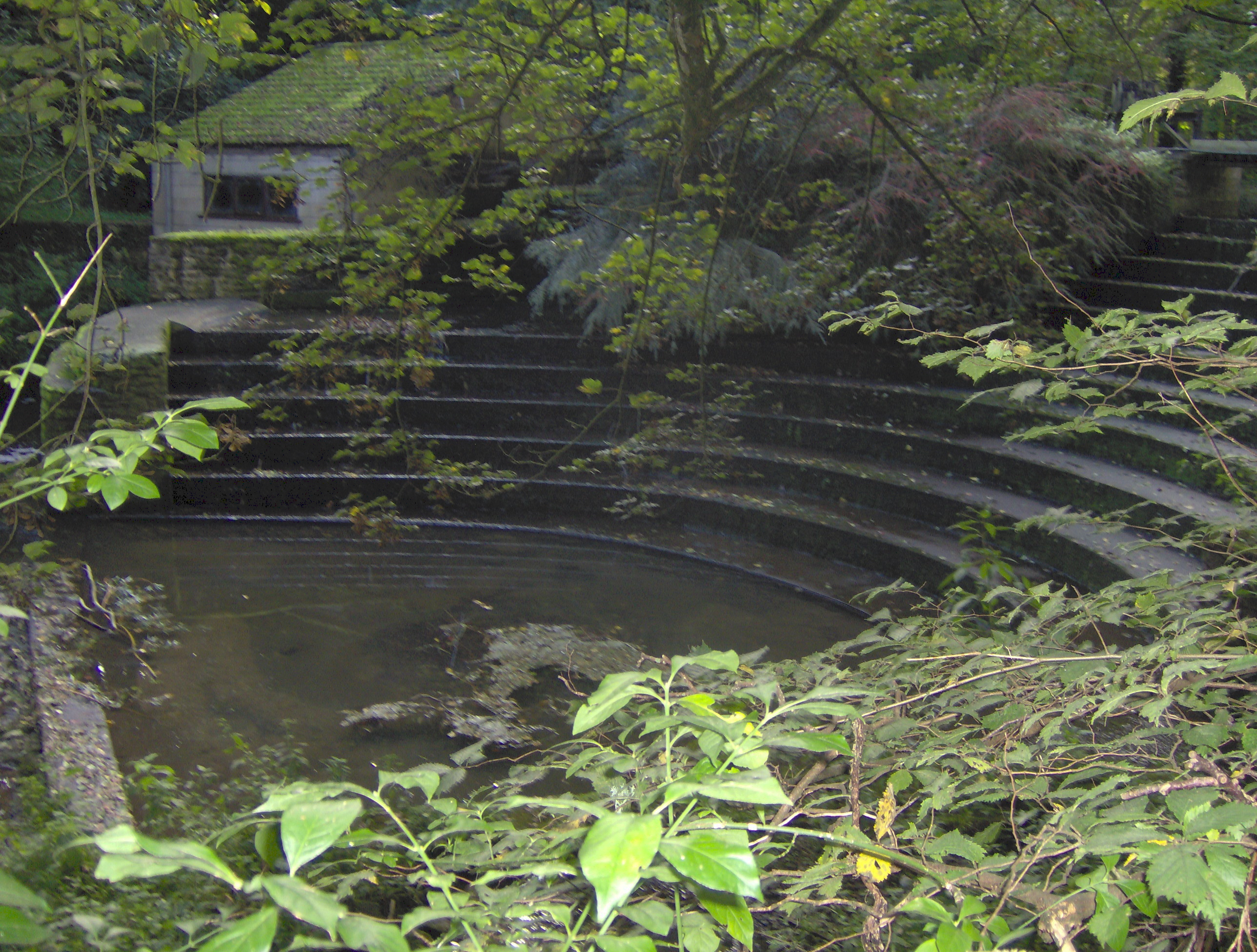 Weir on Cam Brook at Combe Hay, Somerset. Taken by Rod Ward Oct 2006